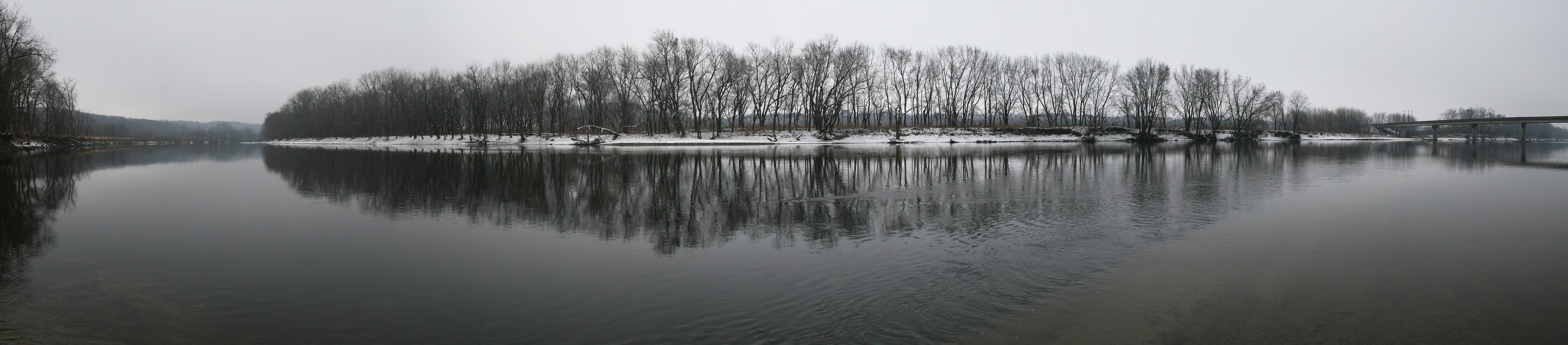 The Wabash River near the extinct settlements of Ouiatenon and Granville in Tippecanoe County, Indiana, photographed on the day of the season's first snowfall. Photo was taken from a gravel bar at the mouth of Indian Creek and looks generally southeast toward the site of Granville, with a field of view of a little under 180 degrees. Granville Bridge is at extreme right.